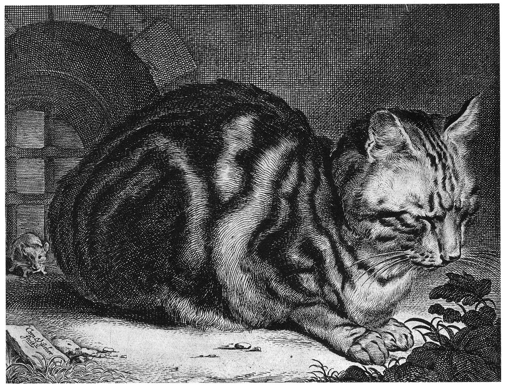 Cat Sleeping - etching and engraving